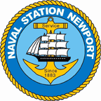 NAVSTA patch